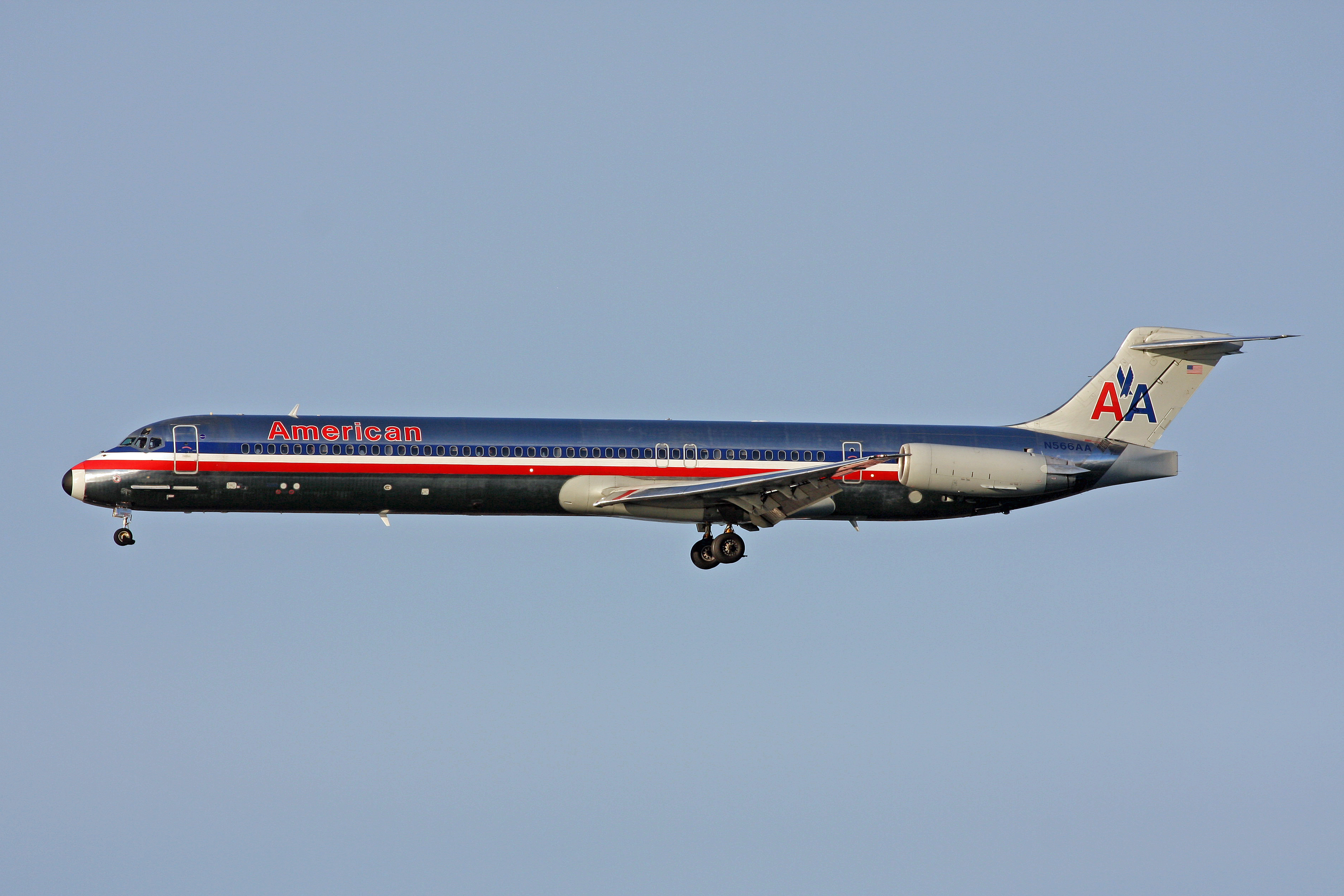 Coming in for a landing.